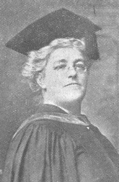 An older white woman in academic regalia, wearing glasses. Her hair is wavy and white under the mortar board on her head.